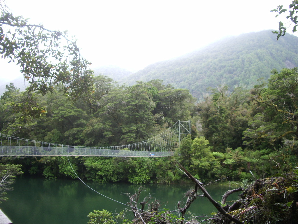 large swing bridge over Pyke River at Hollyford Track in New Zealand, high